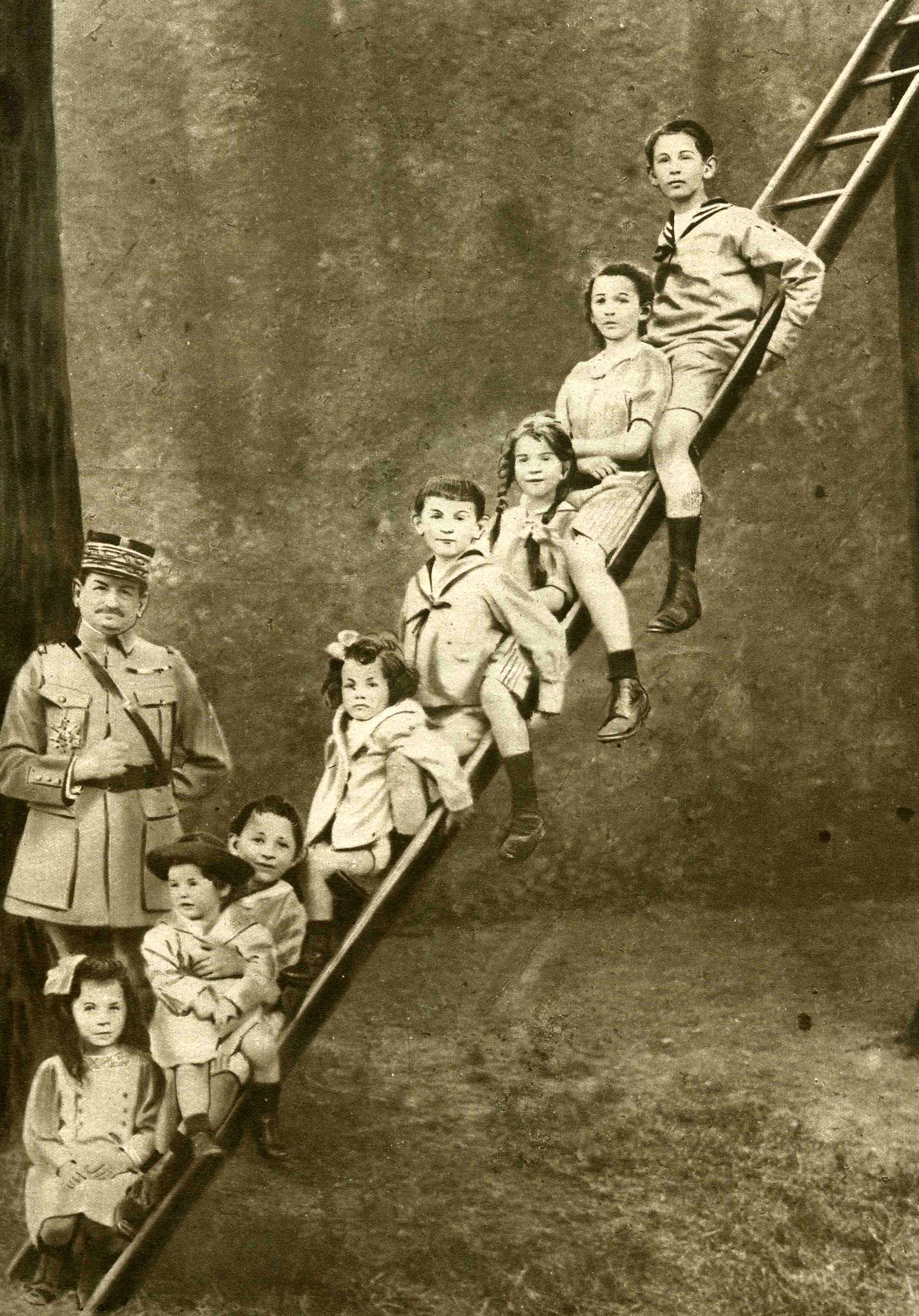 General mangin and his 8 children (Mainz, 1919) "General Mangin and his small family: General Mangin established his headquarters at Mainz, where his alert army was ready to cross the Rhine if Germany had not decided to sign the peace. The great military preoccupations of General Mangin was the joys of the family. He did not want to be separated from his children and brought them to Mainz, here they are all eight, photographed under the smiling eye of their father."